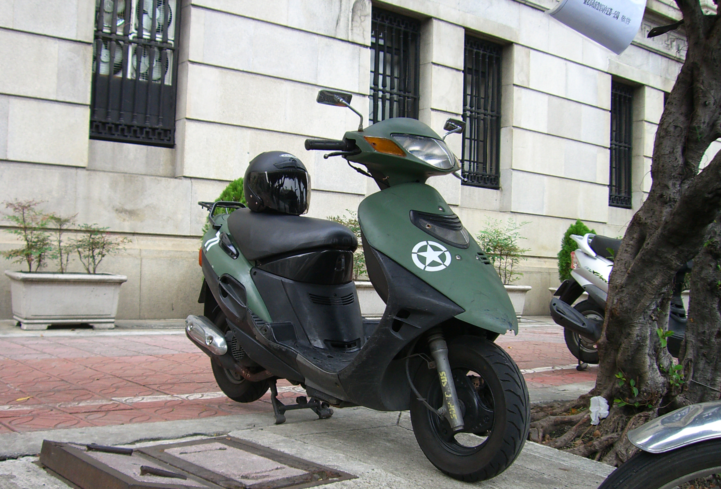 Suzuki Vecstar 125cc in Taipei, Taiwan